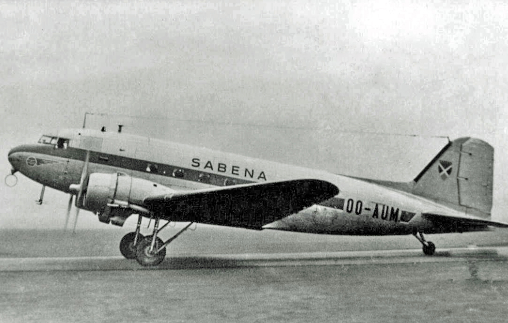 Douglas DC-3D OO-AUM of Sabena Belgian Airlines at Manchester Airport in 1949